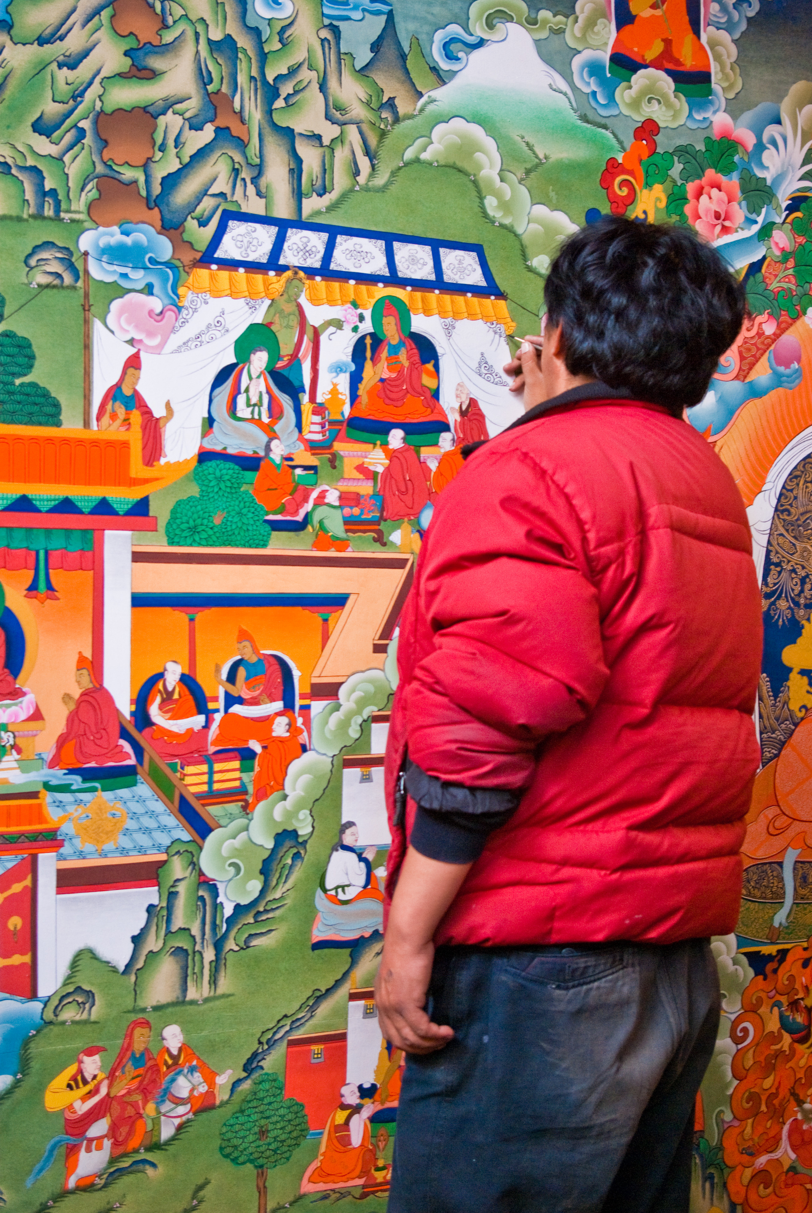 Reting monastery